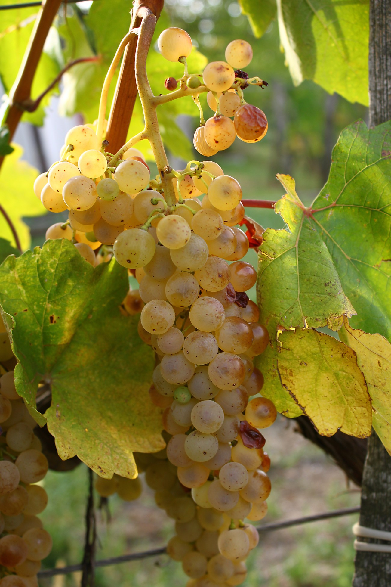 Harslevelű grape variety cluster.